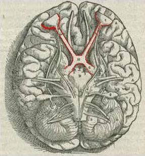 Summary en:1543 book from the collection of the NIMH, Andreas Vesalius' Fabrica showing the Optic chiasma (outlined in red for emphasis) 10:35, 10 December 2005 Ancheta Wis 287x308 (24991 bytes) ( :en:1543 book from the collection of the NIMH, Andreas Visalius ' Fabrica showing the :en:Optic chiasma (outlined in red for emphasis))